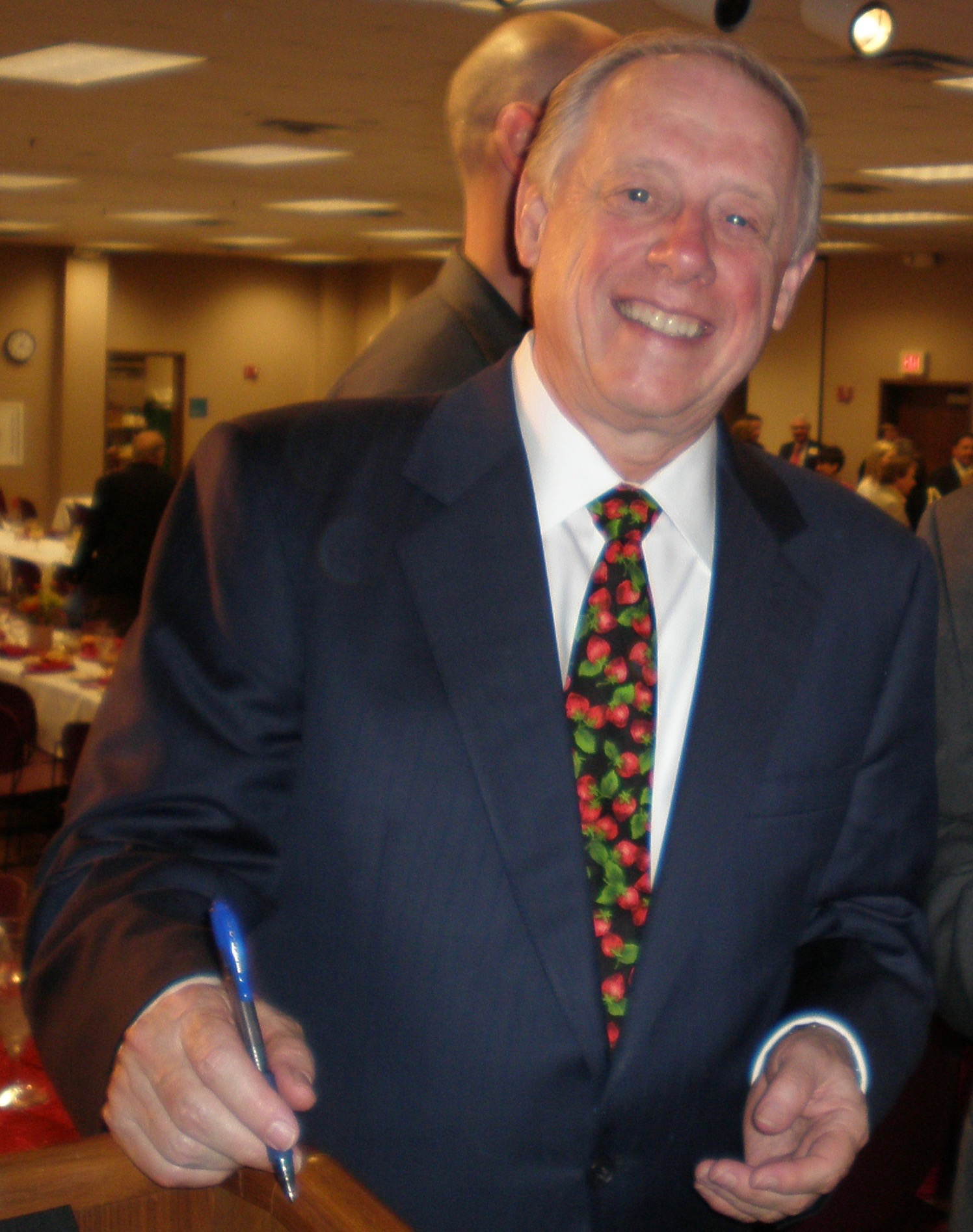 Phil Bredesen at a luncheon in Humboldt